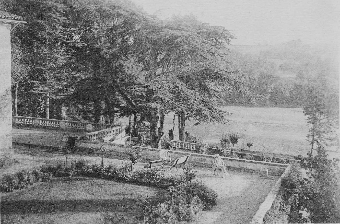 CLip from old photo of Lagorce